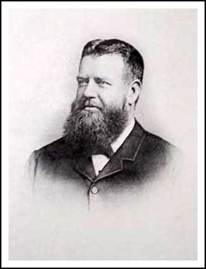 Dr. Andrew Houison B.A., M.B., Mast. Surg., (1 January 1850 - 22 August 1912) was a Sydney medical practitioner, amateur historian and philatelist.